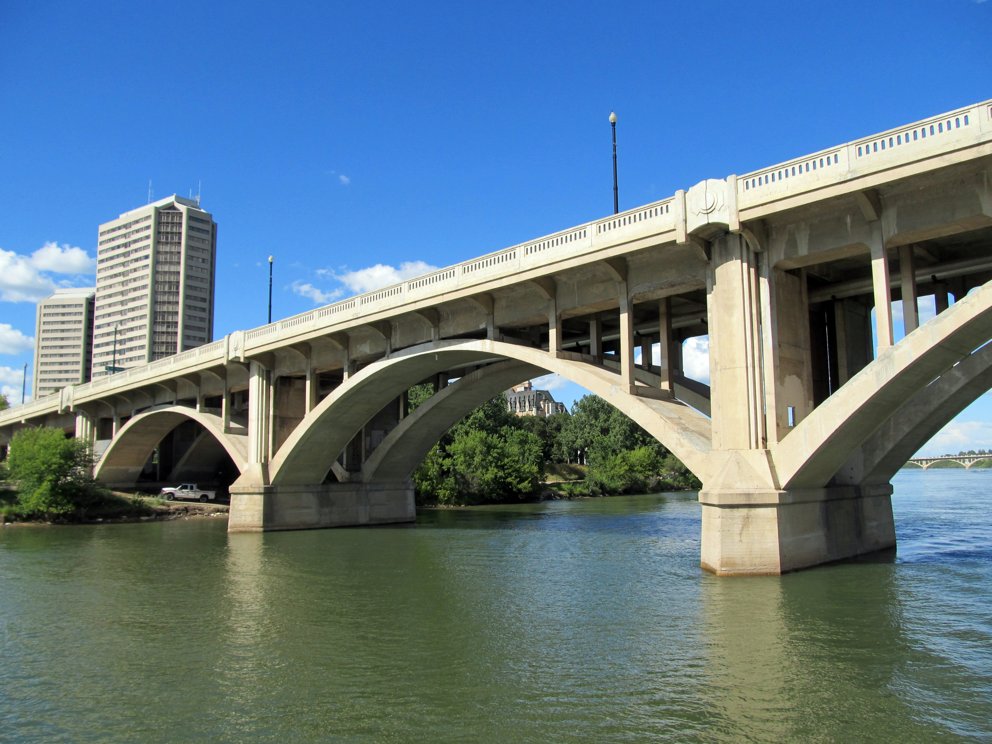 A look back at the Broadway Bridge after we'd passed underneath it.